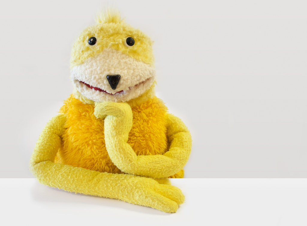 An image of Flat Eric posing for the camera.